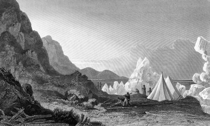 “Expedition First Detained by the Ice” (July 9, 1826) [drawn by George Back]